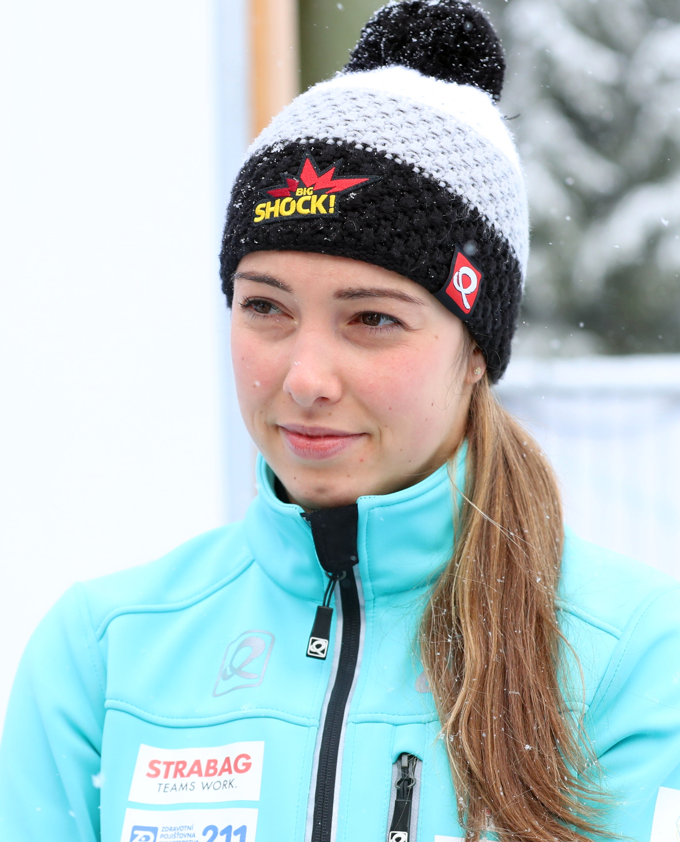 Training at the Women's Skeleton at the Bobsleigh and Skeleton World Championships 2020 in Altenberg